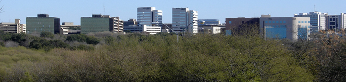 I took this pic with my digicamera.